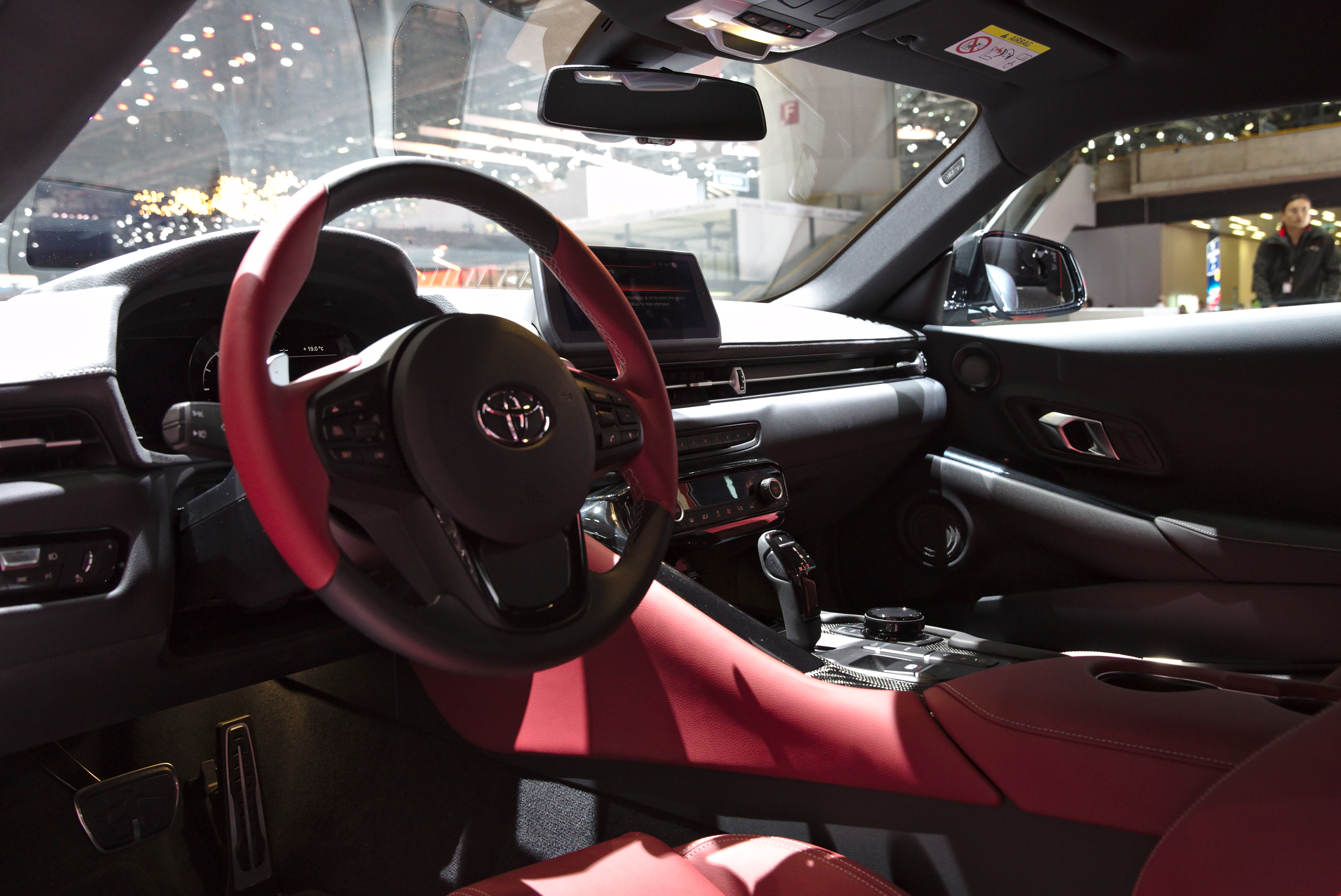 Toyota Supra GR at Geneva Motor Show 2019